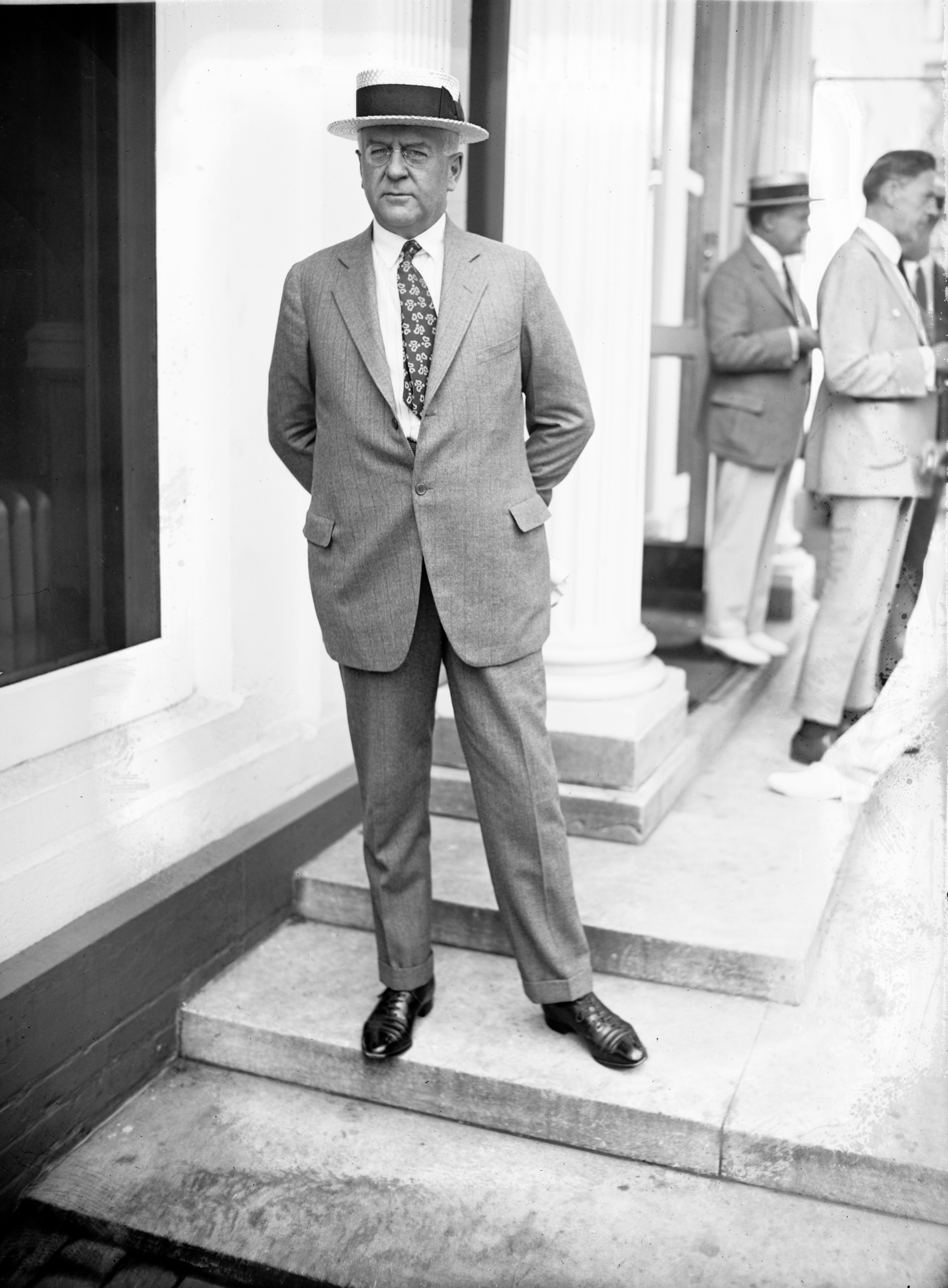 James J. Couzens, Mayor of Detroit and US Senator from Michigan